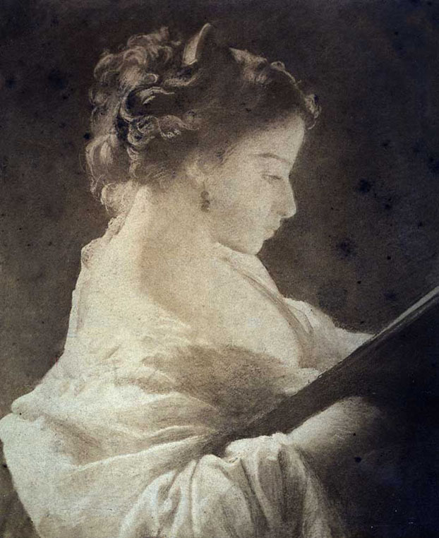 "La Liseuse" - Pastel drawing of painter's second daughter, Louise, aged 19.